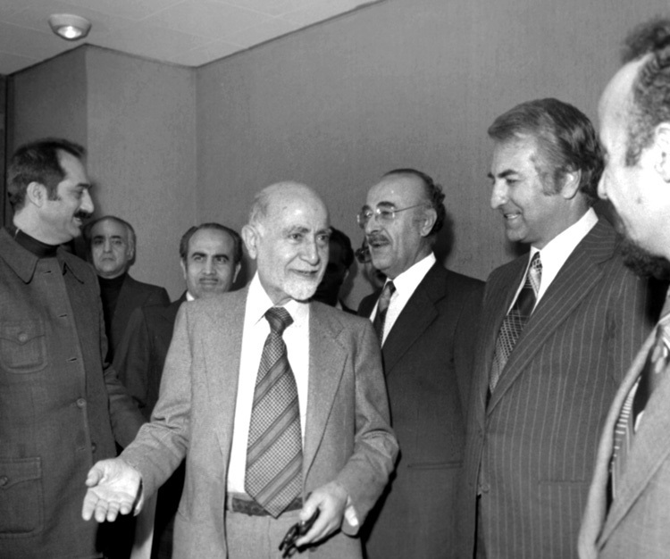 PM Bazargan and member of Interim government of Iran